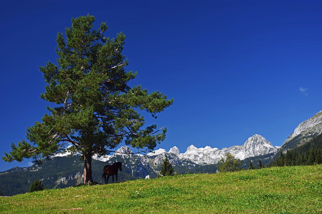 Uskovnica pasture and the mountains of Bohinj group behind.